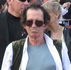 Picture of Keith Richards from the Pirates of the Caribbean: At World's End premiere at Disneyland